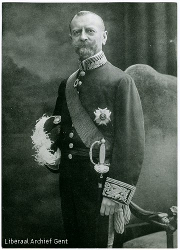 Image of Adolphe Max provided by the Liberaal Archief on request on 20 May 2008. For more information about this photo contact the Liberal Archive directly.